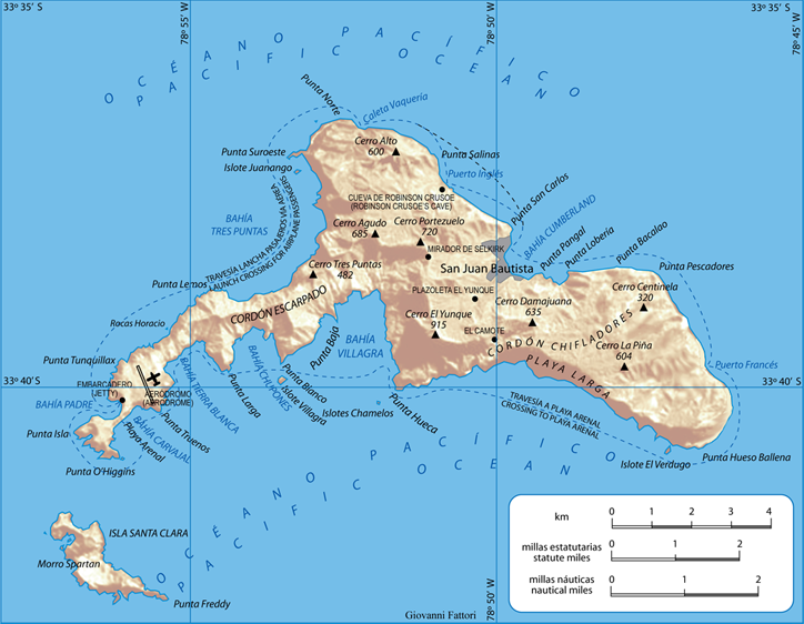 Map of Robinson Crusoe Island, Archipelago Juan Fernández, Chile. Shaded relief.